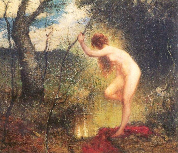 "The Forest Pool" by Elliot Daingerfield